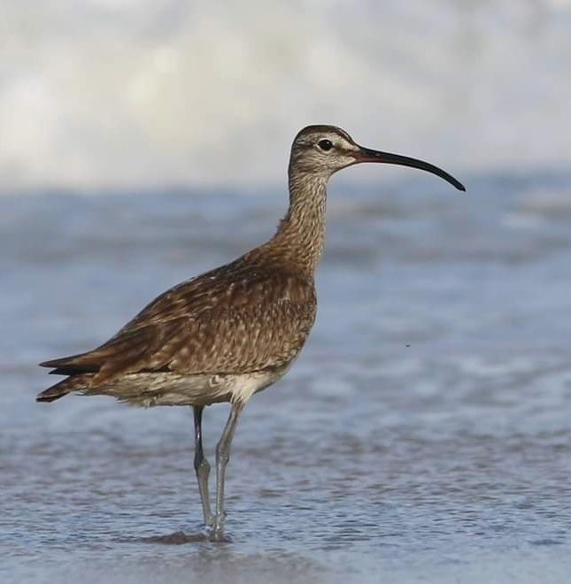 Whimbrel Numenius phaeopus, Chavakkad, Thrissur district, Kerala, India